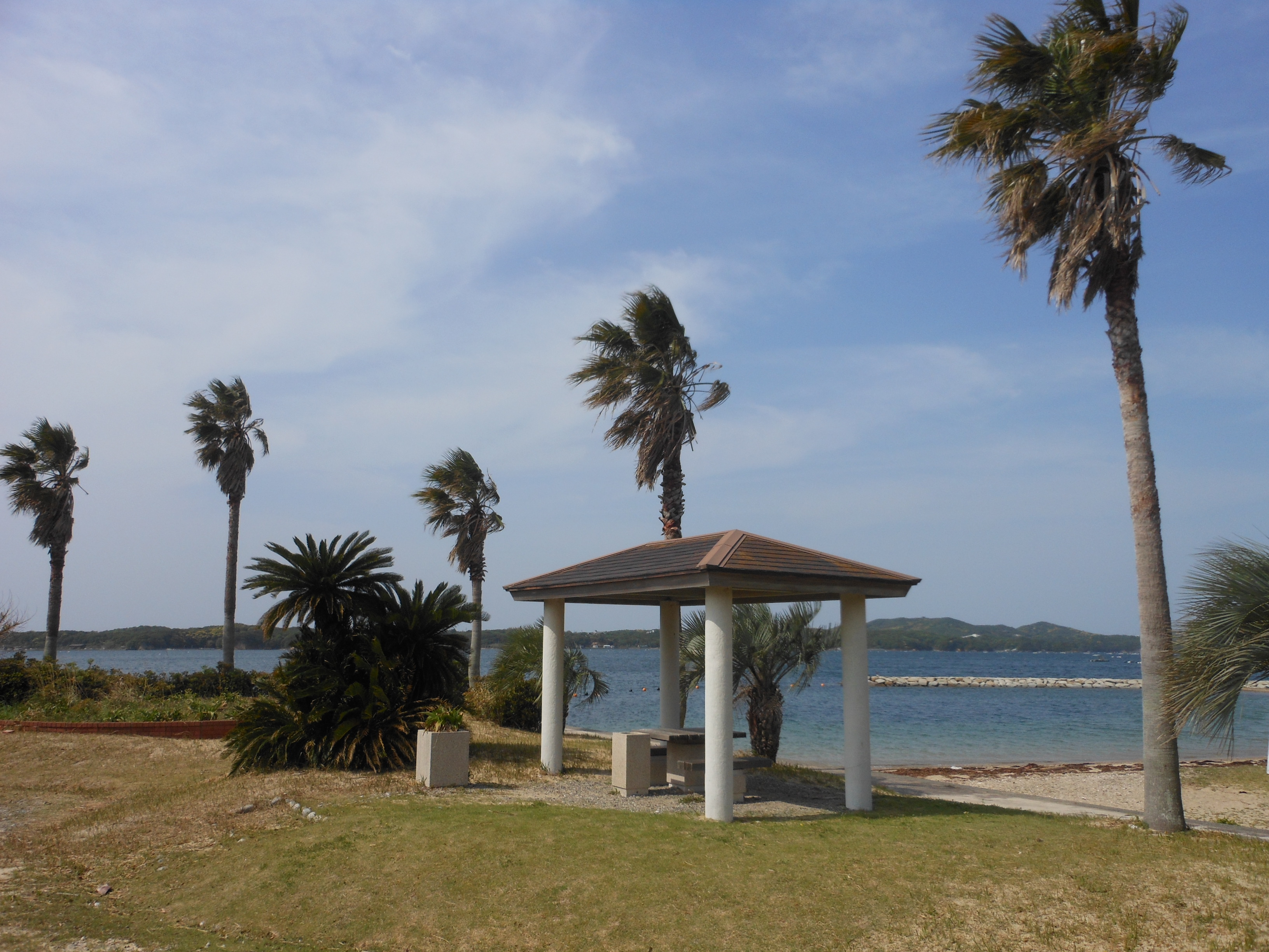 This is the Masaki Small Park in Masaki island, Shima, Mie, Japan.